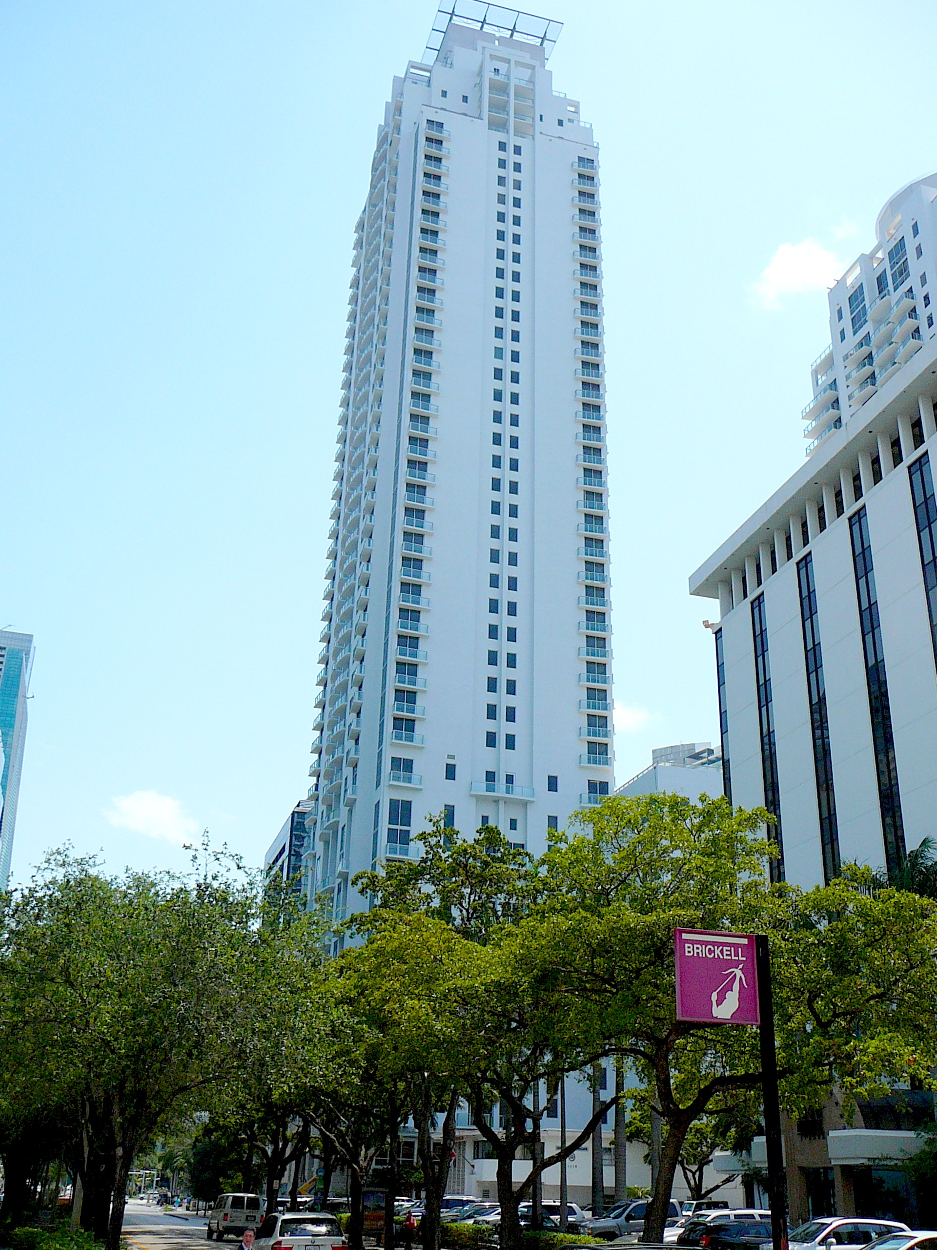 Digital photo taken by Marc Averette. The Avenue (Miami), west tower in downtown Miami 5/14/2008